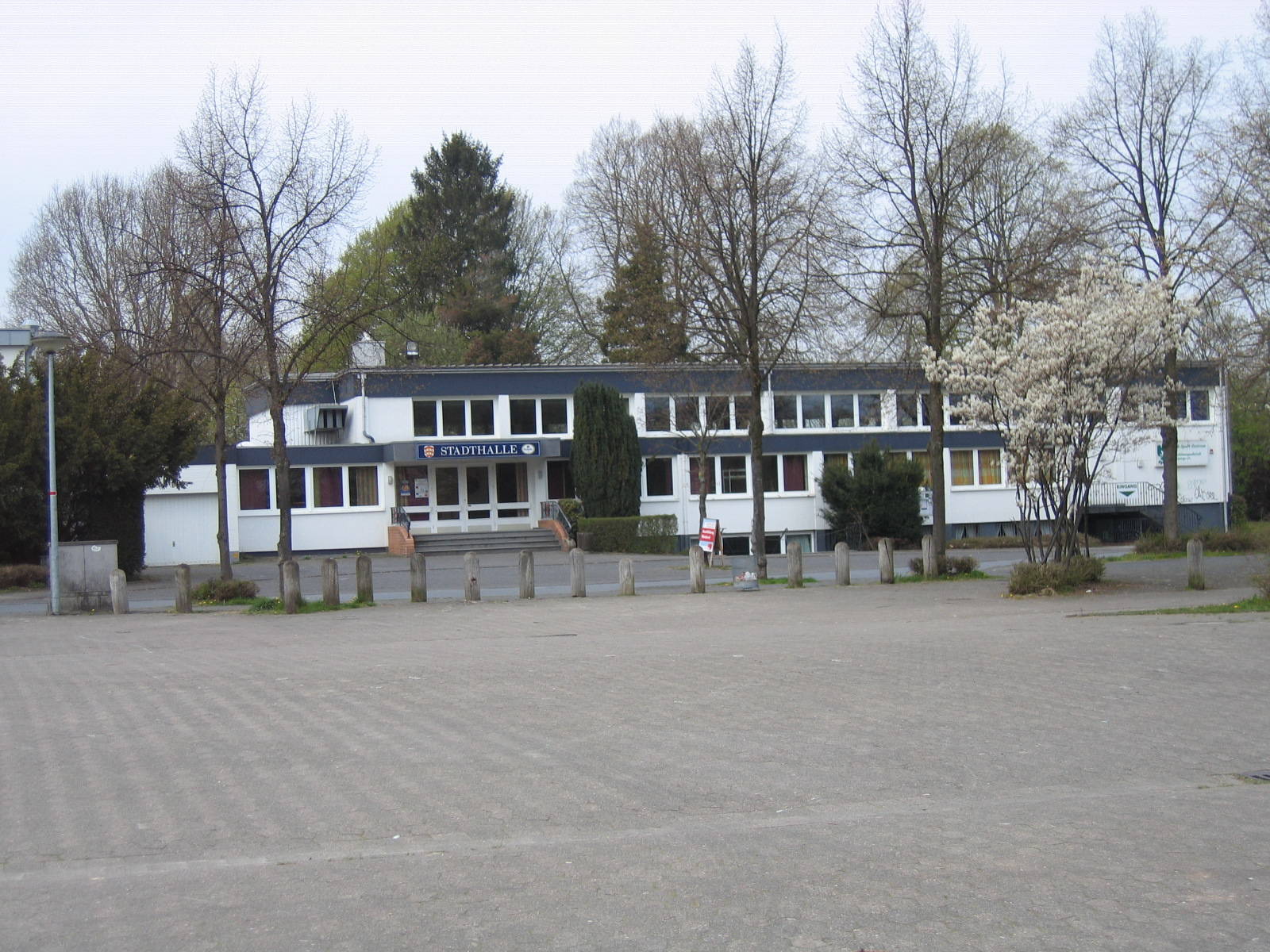 Spenge, District of Herford, North Rhine-Westphalia, Germany.